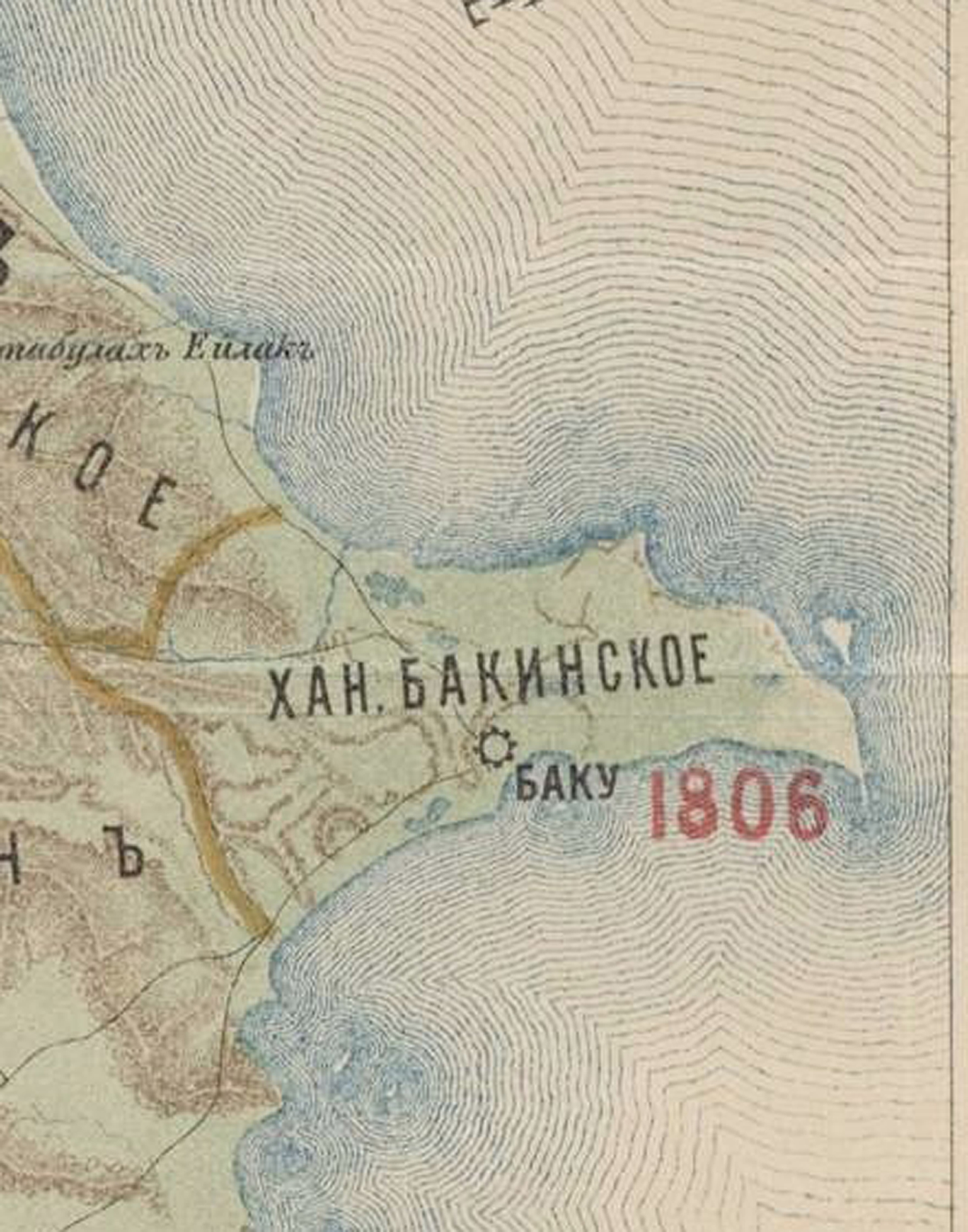 Khanate of Baku in the Map of Caucasus with the borders.